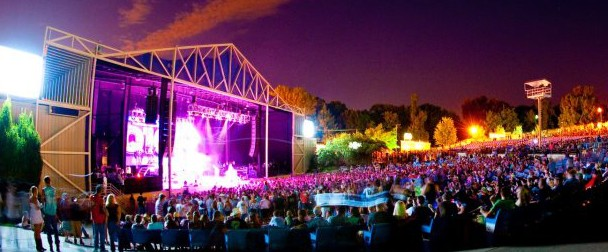 cricket wireless amphitheater